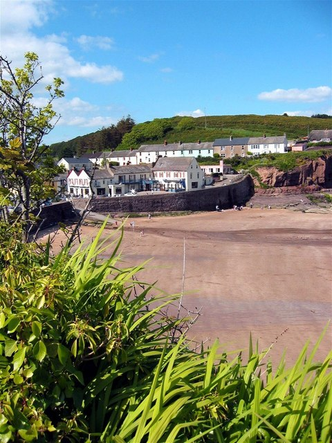 Counsellors strand Counsellors Strand at low tide.